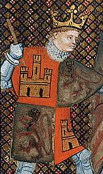 Alfonso XI, King of Leon and Castile